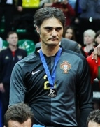 Paulo Santos (Portuguese footballer)